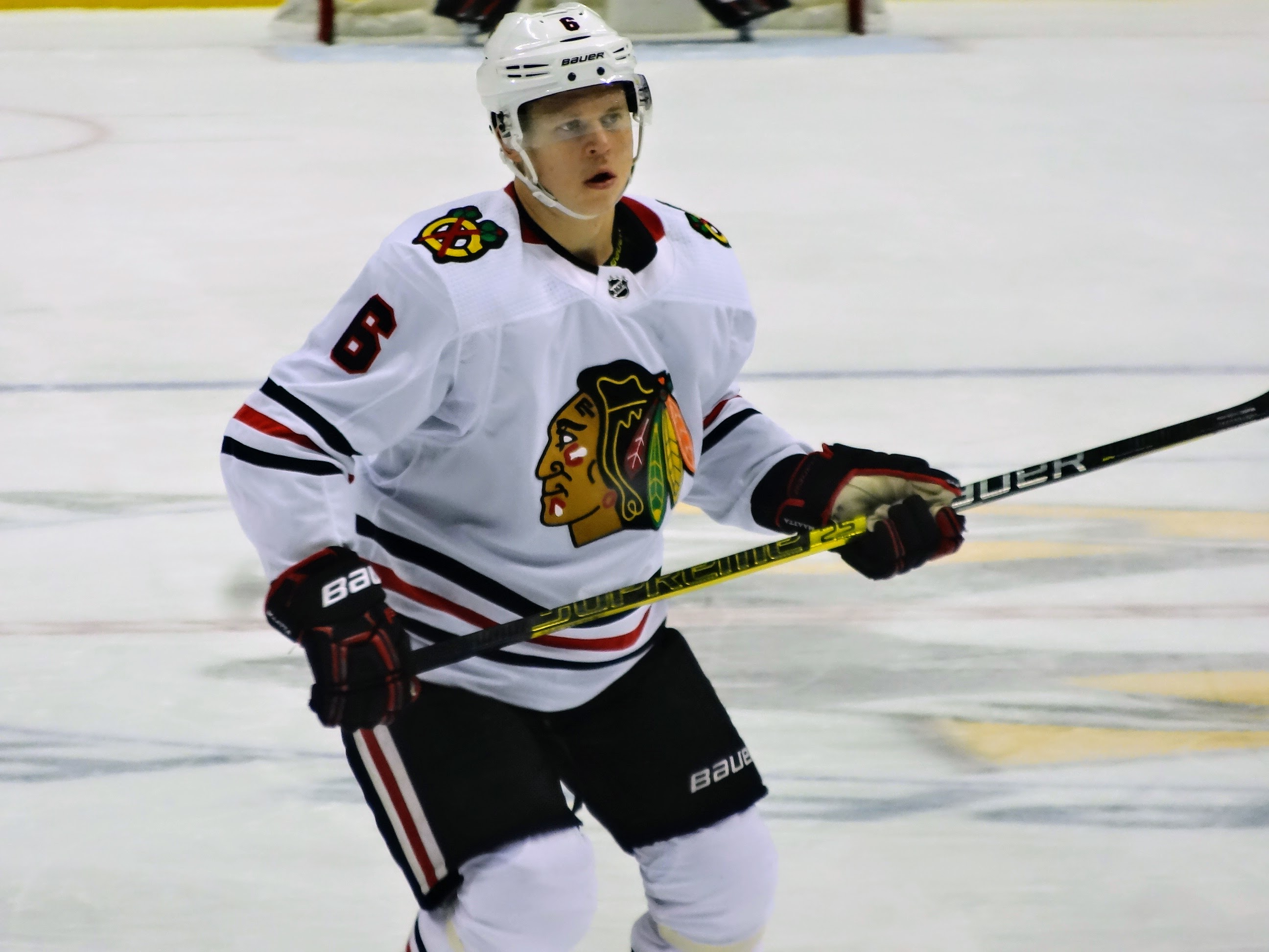 Olli Maatta playing for the Chicago Blackhawks in 2019. This was Olli's first game back in Pittsburgh.